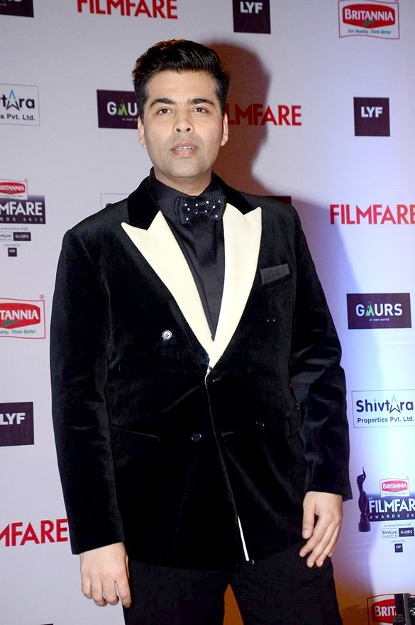 anaconda Filmfare